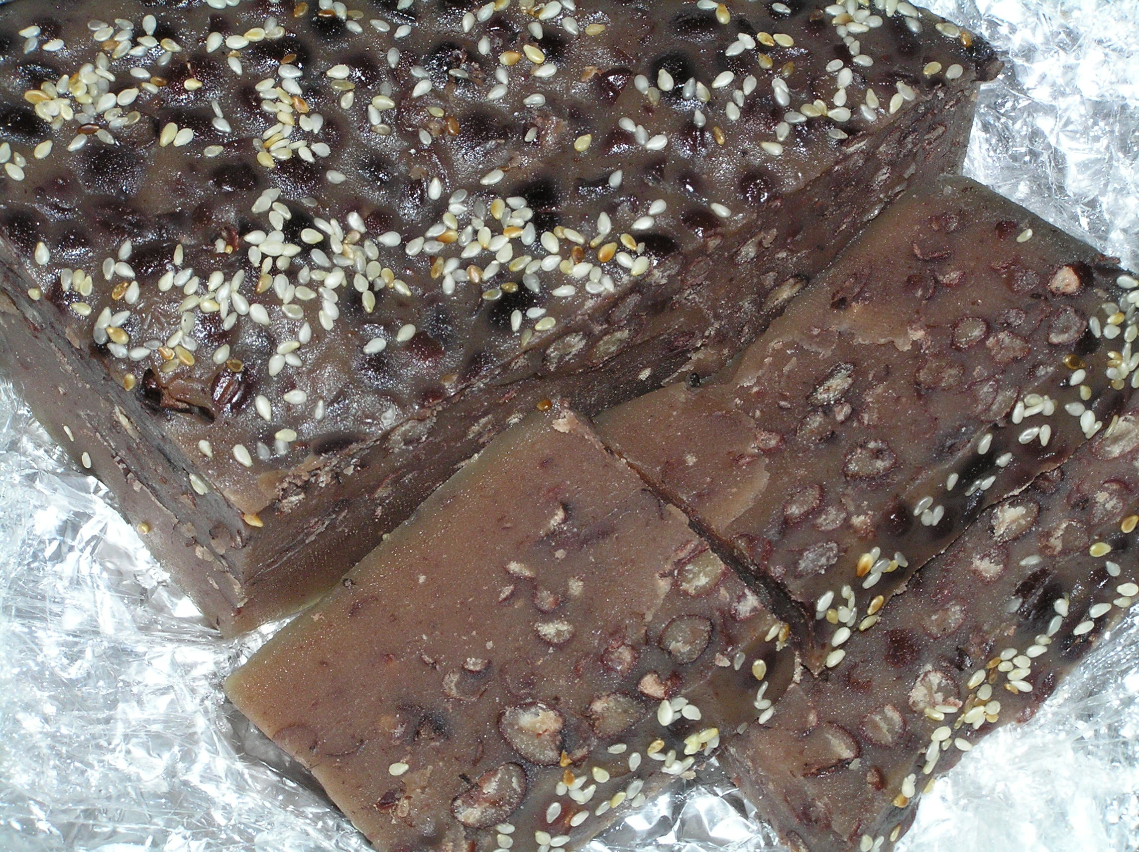 Cantonese version of Red bean cake